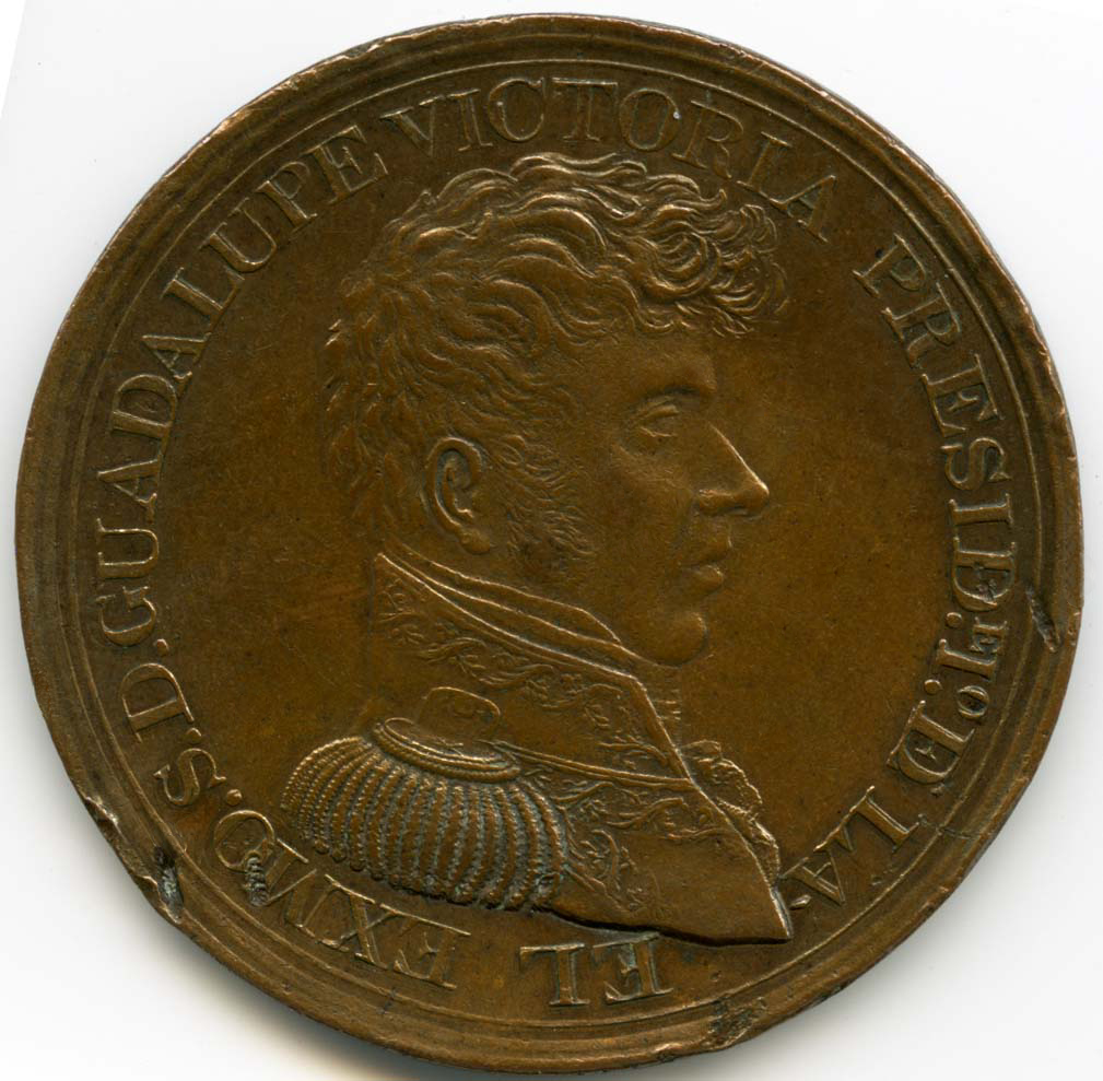 Guadalupe Victoria medal. 1824